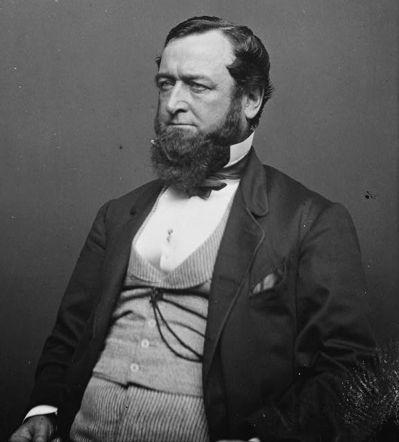 Hon. Chas. R. Train.